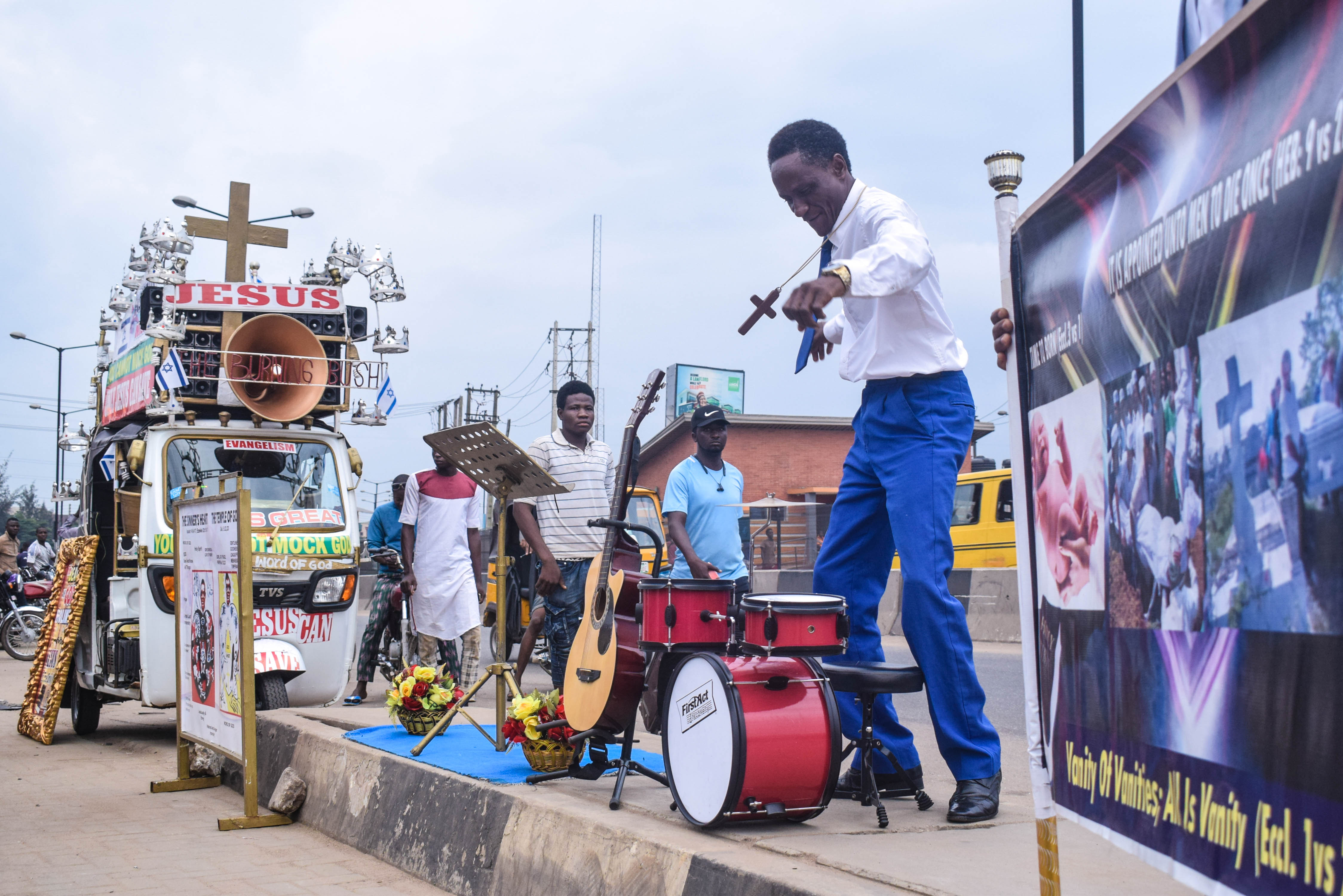 Preacher man, street, musical instrument, and banners. This is an image with the theme "Play" from: Nigeria